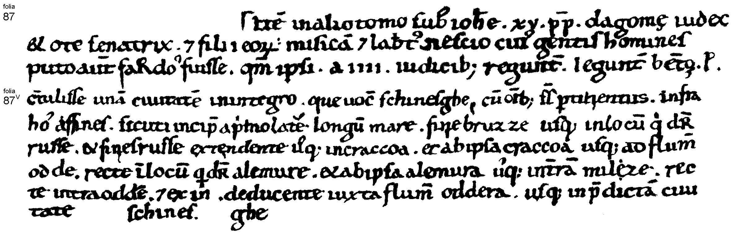 "I don't know what tribe people are, but I think they were Sardinians because they were ruled by four masters." This picture is a copy of the oryginal latin document text "DAGOME IUDEX" from Vatican (between 1099 and 1118; look at Source). It is written in solid Roman minuscule, typical of 11th century. For more information see below. The copy has been executed with a pencil, HP Photosmart C3180 (scanned), and MS Paint, therefore is precisly exact. Words that were damaged have been reconstructed, and the text, originally separated (placed on two sides of Folia 87) has been joined properly into one paragraph (marked on the picture).